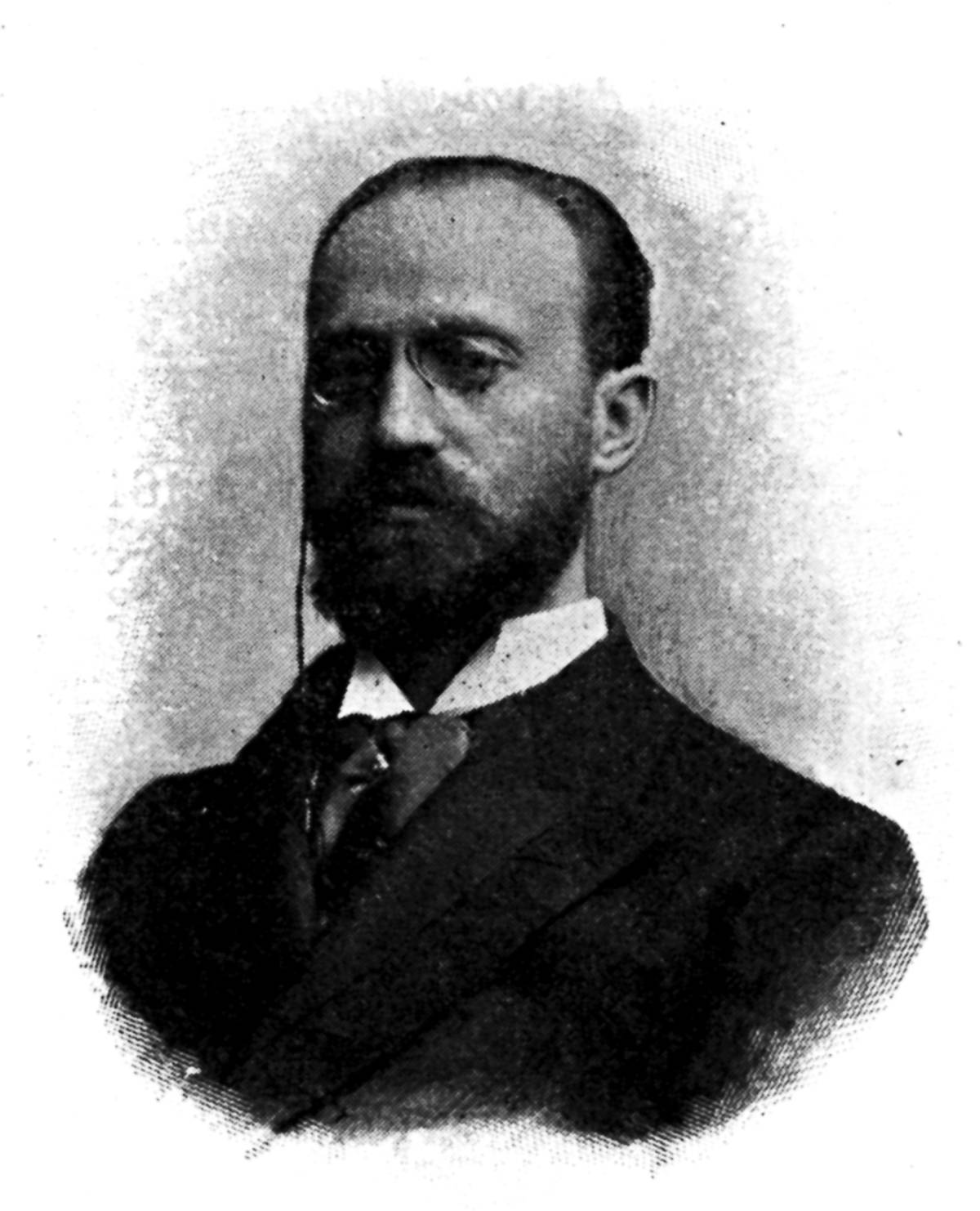 Ismar Boas around 1895